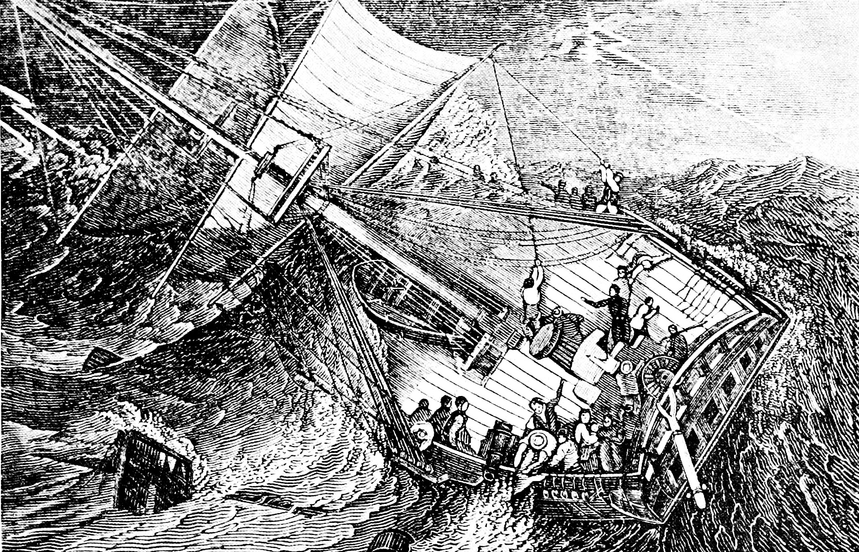 P 224--Illustration from the book Lonely ships and lonely seas by Ralph Paine. Illus by George Avison. Published by The Century co., New York, 1921. (First published as individual true sea-stories in Century magazine between 1920-21.)